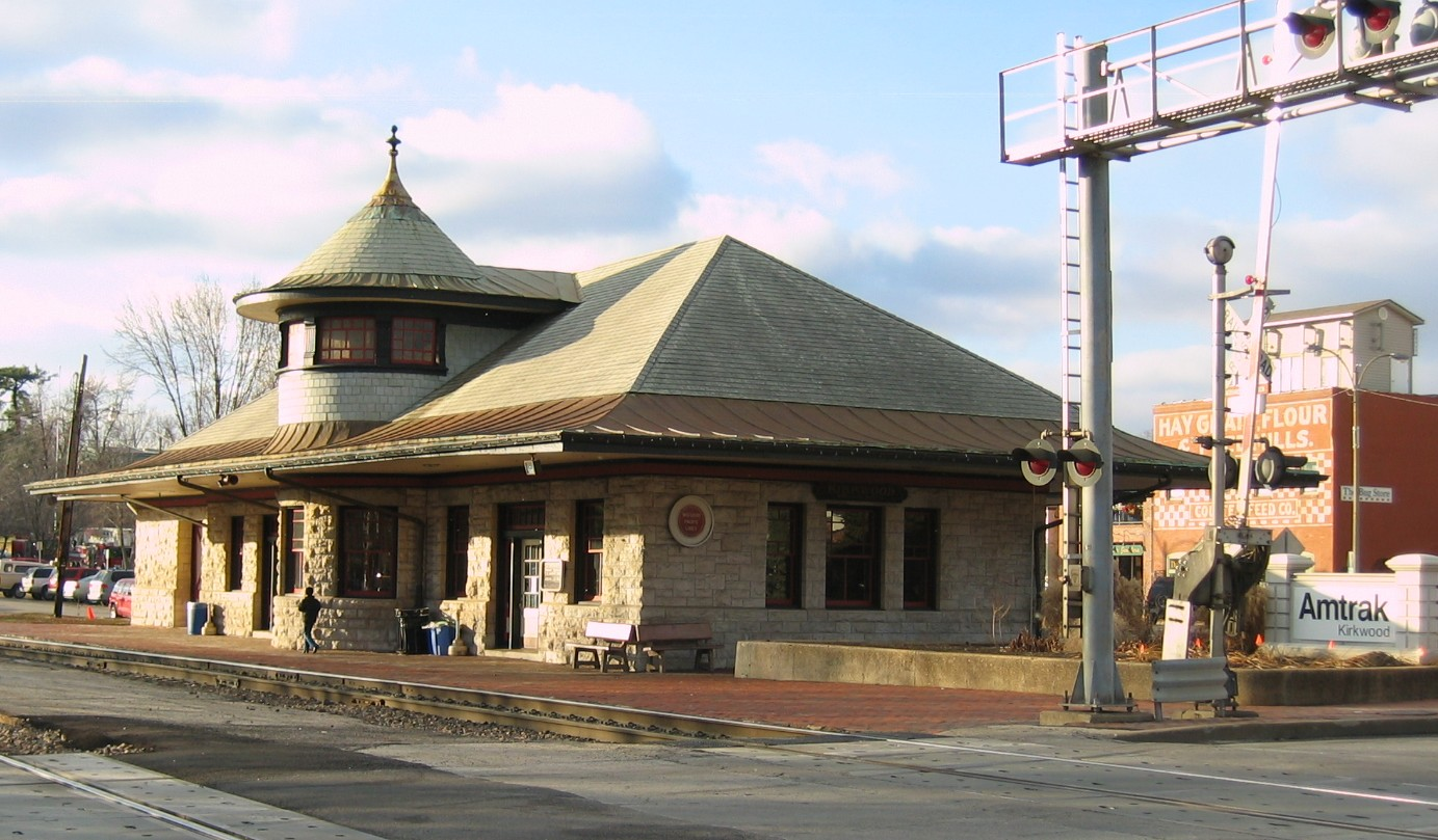 Former Missouri Pacific station in suburban St. Louis. Built in 1893, now an Amtrak stop.